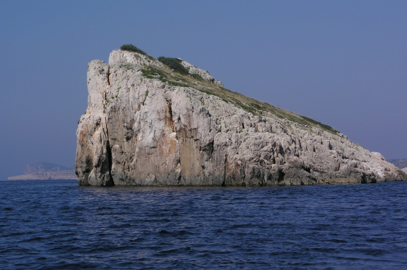 Kornati, Croatia